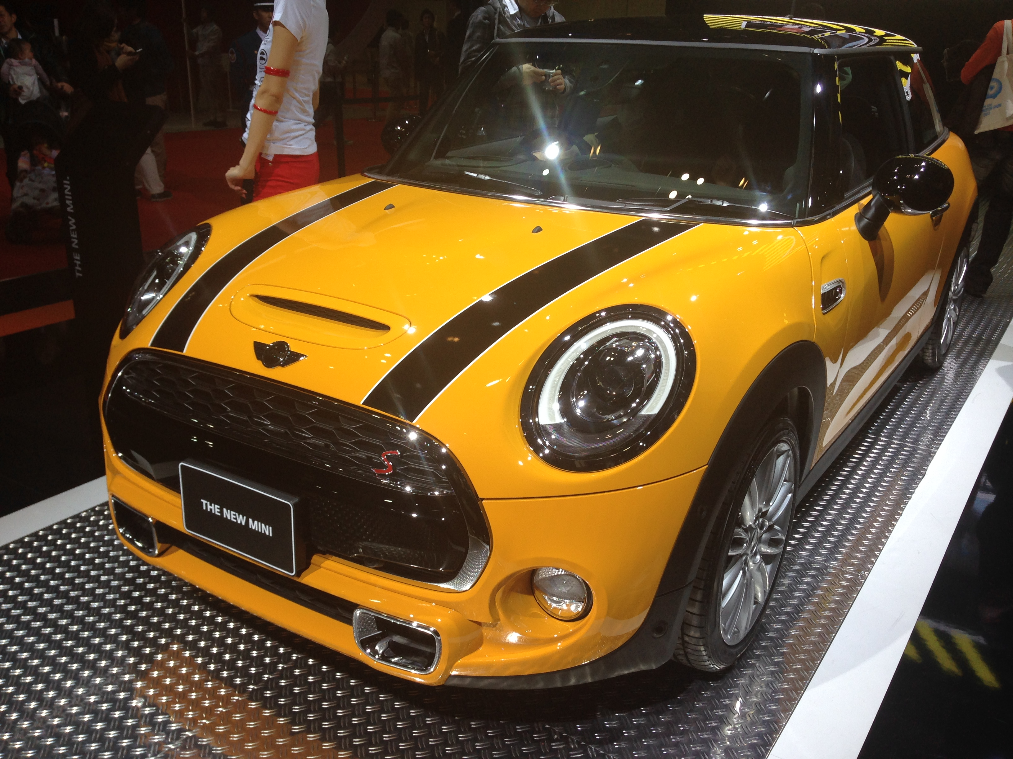 Mini Cooper S photographed at the Tokyo Motor Show 2013.